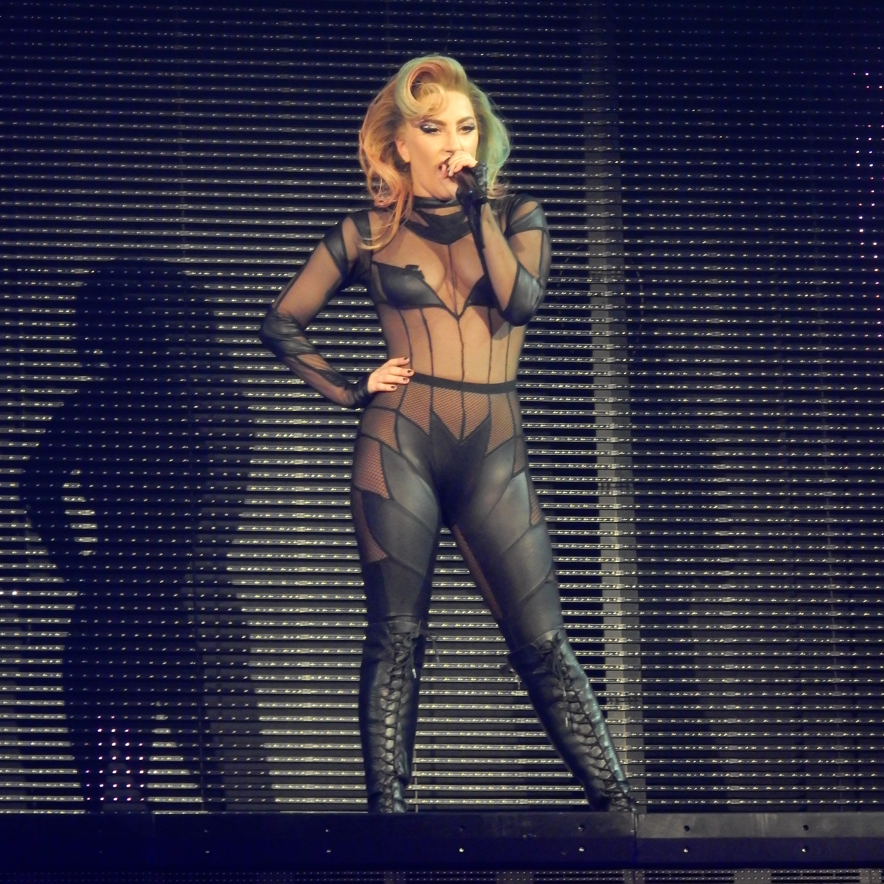 Lady Gaga performing at Arena Birmingham for the Joanne World Tour, January 31st 2018